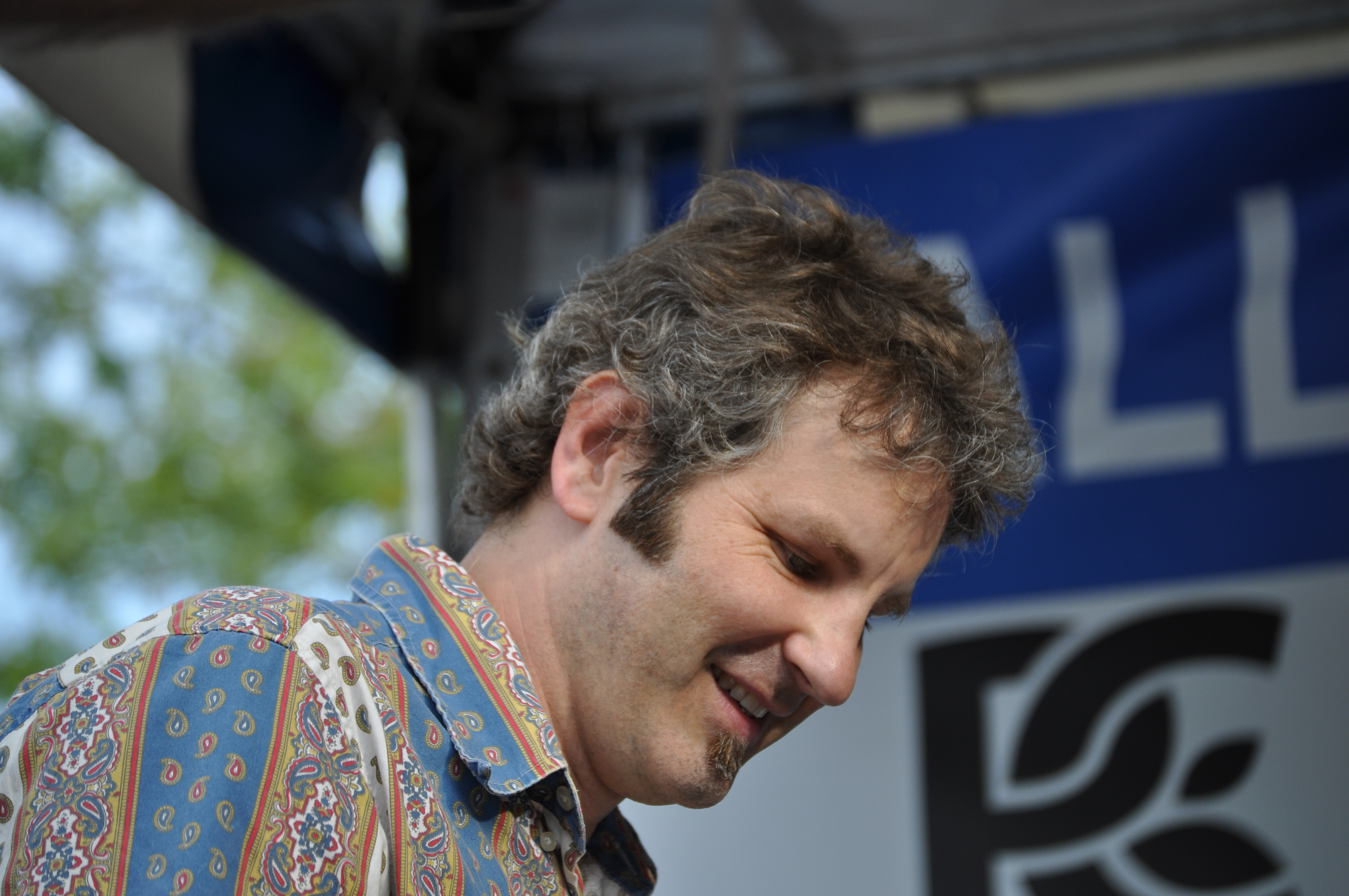 Former Squirrels keyboardist Mark Nichols sitting in with The Squirrels at the Ballard Seafood Festival, Ballard, Seattle, Washington, in what was announced as their second-to-last gig (and last all-ages gig).